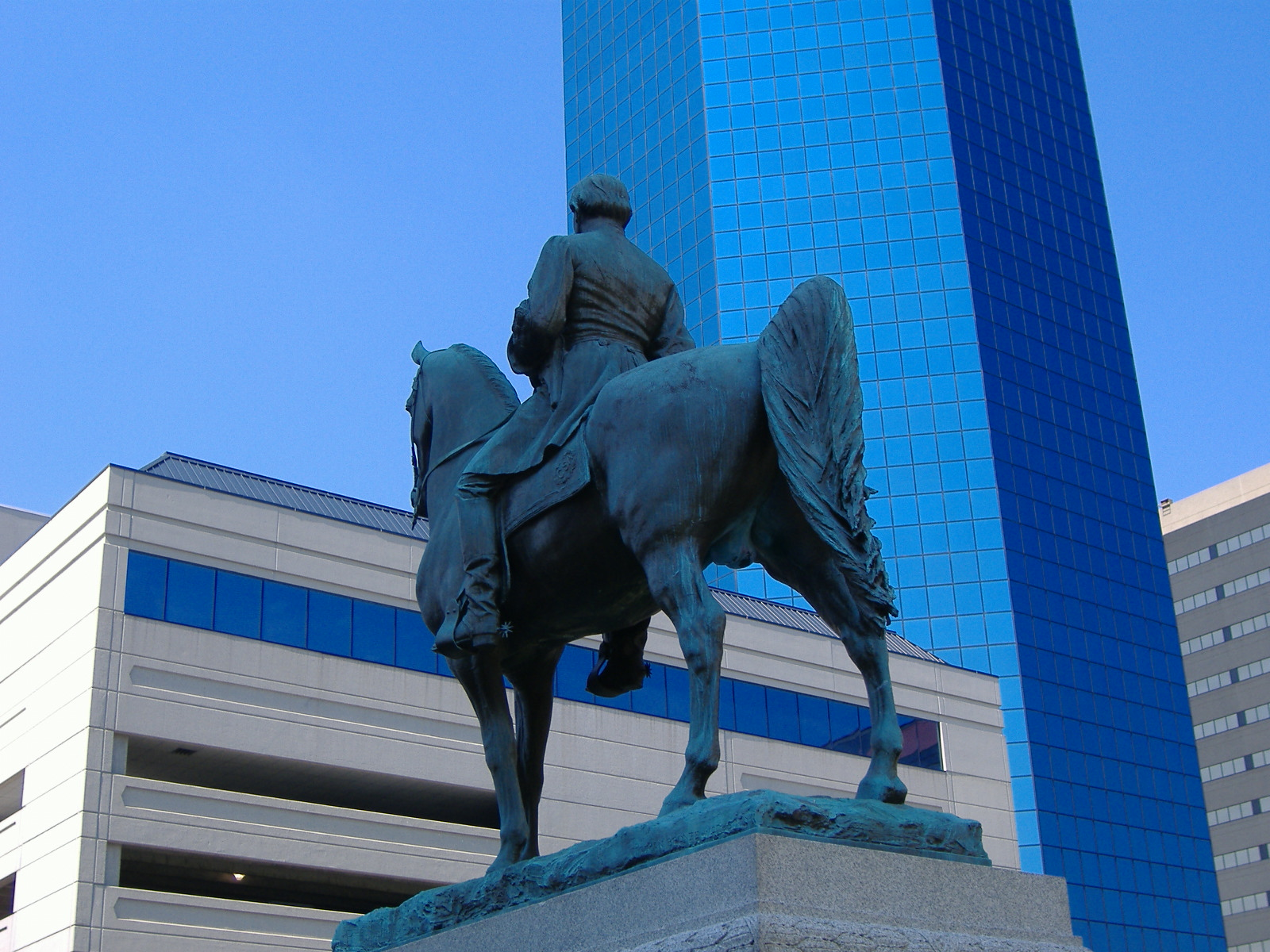 A rear view of the John Hunt Morgan Memorial in downtown Lexington, Kentucky